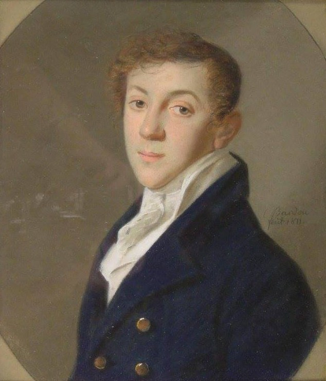 Portrait of Sergei (Gabriel) Yurievich Neledinsky-Meletsky (1795—1871), Russian prince